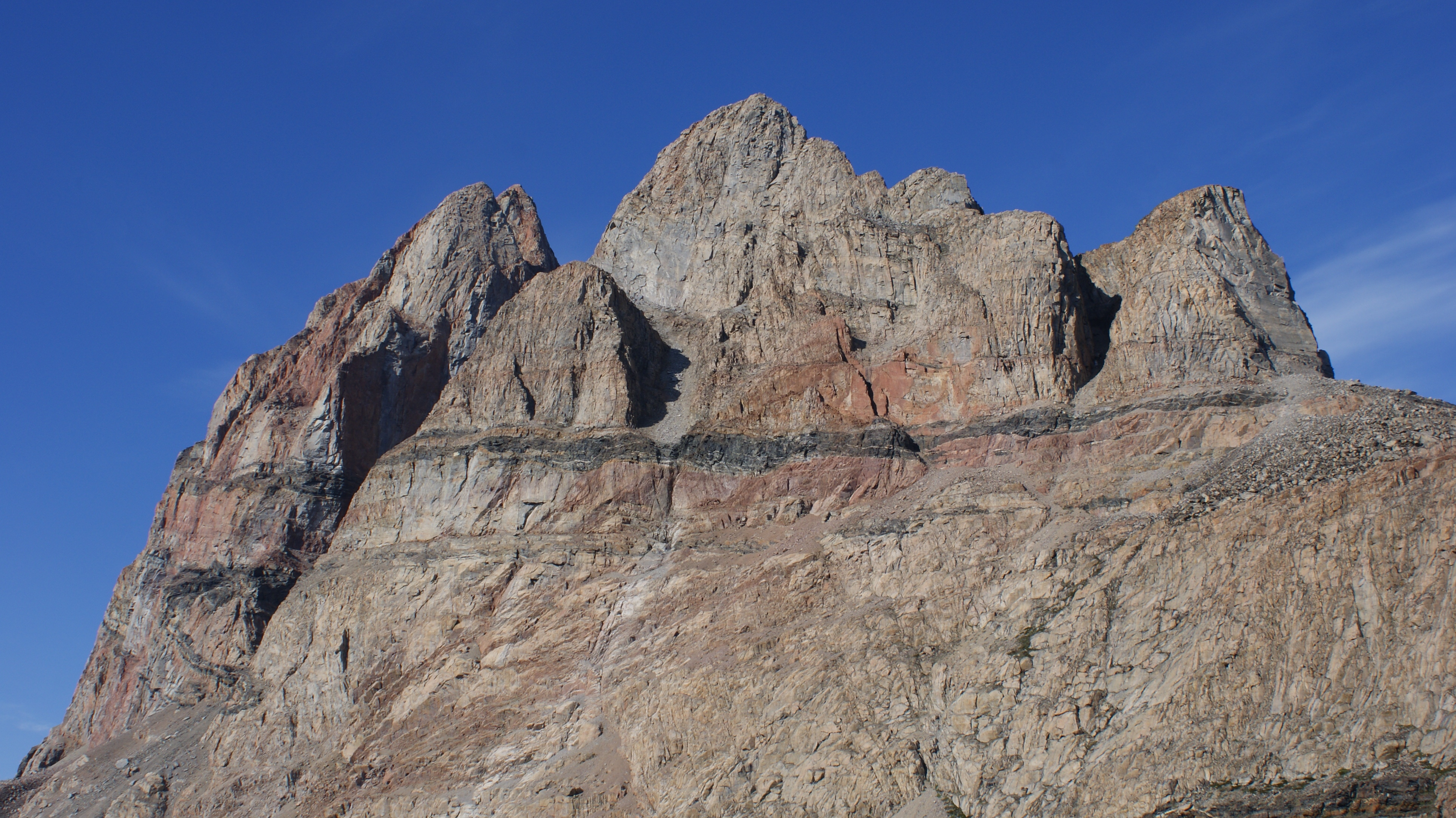 Uummannaq mountain, 1170m, Greenland. Southern wall photographed from the shore of Tasersuaq lake on Uummannaq island.